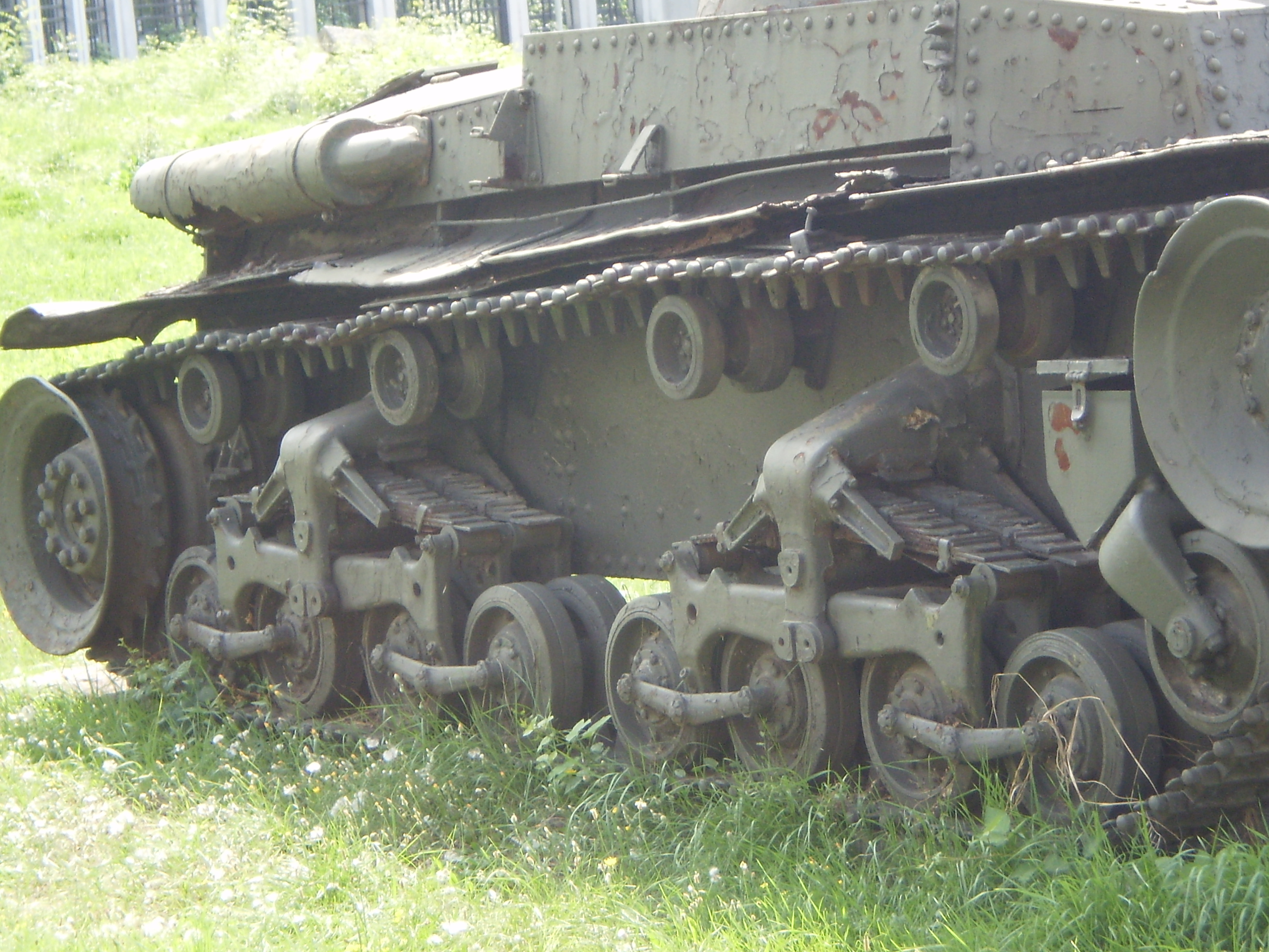 Despite the title, these are tracks and suspension of a Czechoslovak Skoda (Panzer 35t) light tank